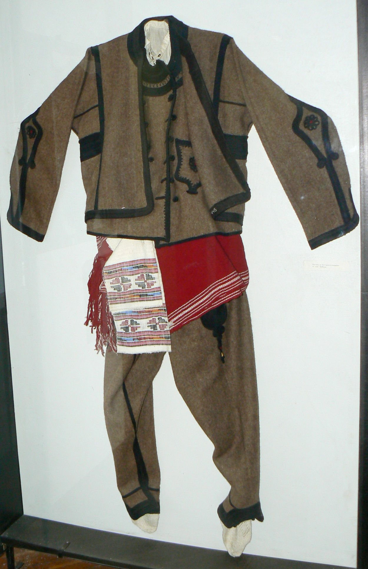 Male costume of a Bulgarian Mohammedan man from village Babintsi, exhibit of the Teteven History museum